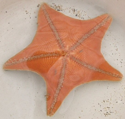 Asterina pectinifera; Starfish in Japan sea. Inverted specimen showing the underside